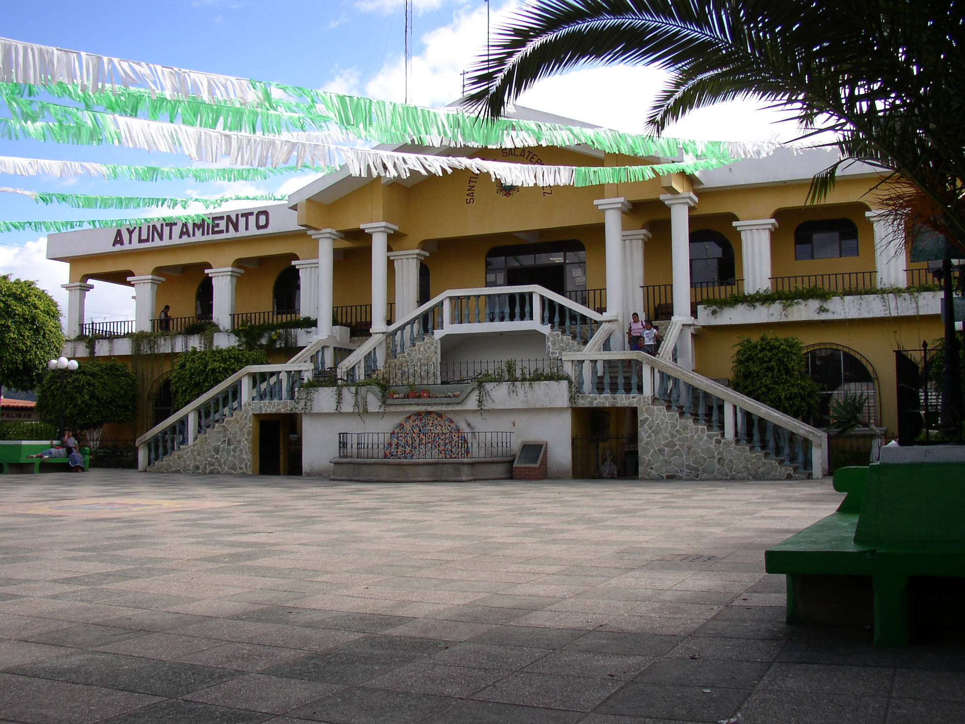 The town hall and city park of Santiago Sacatépéquez, decorated for the celebration of the town saint